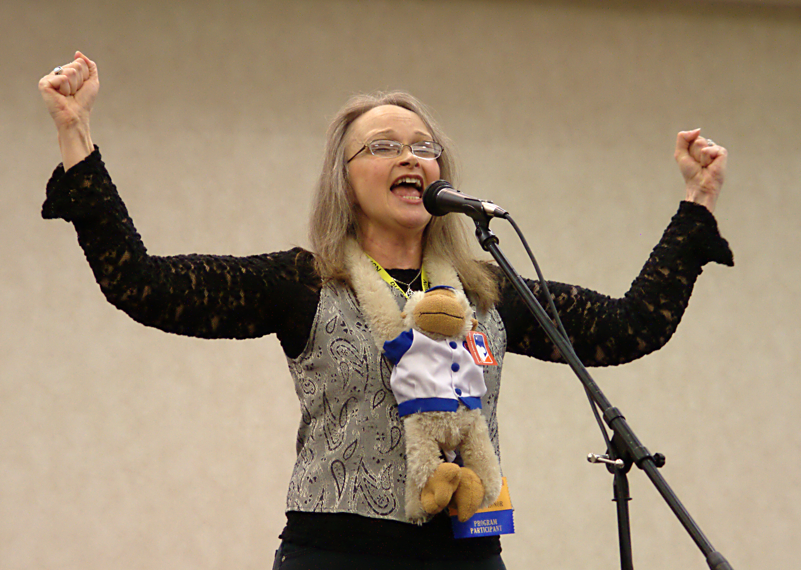 Maya Bohnhoff, performing at DucKon2008 in Naperville, IL, USA